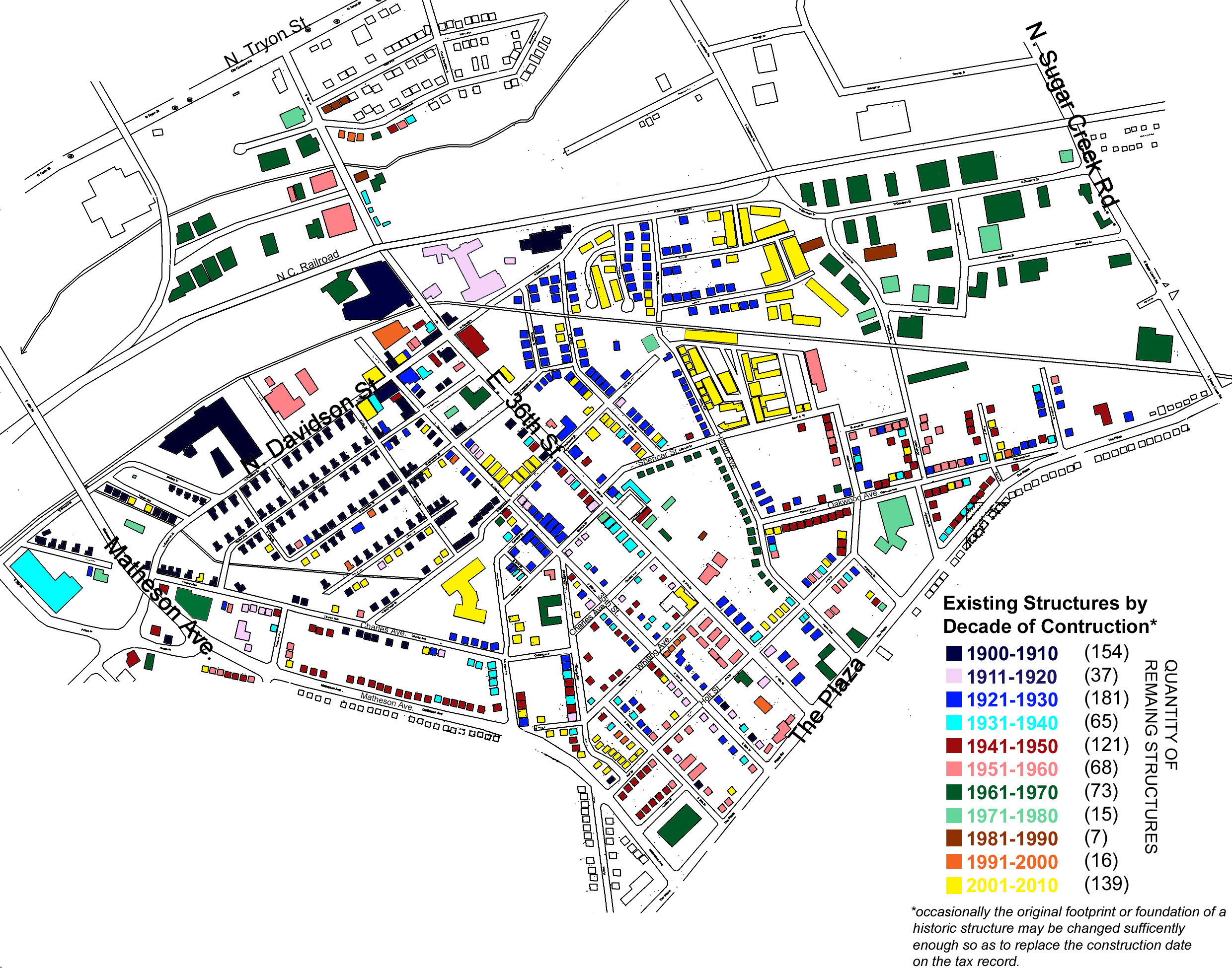 SECOND ATTEMPT AT UPDATED NORTH CHARLOTTE MAP